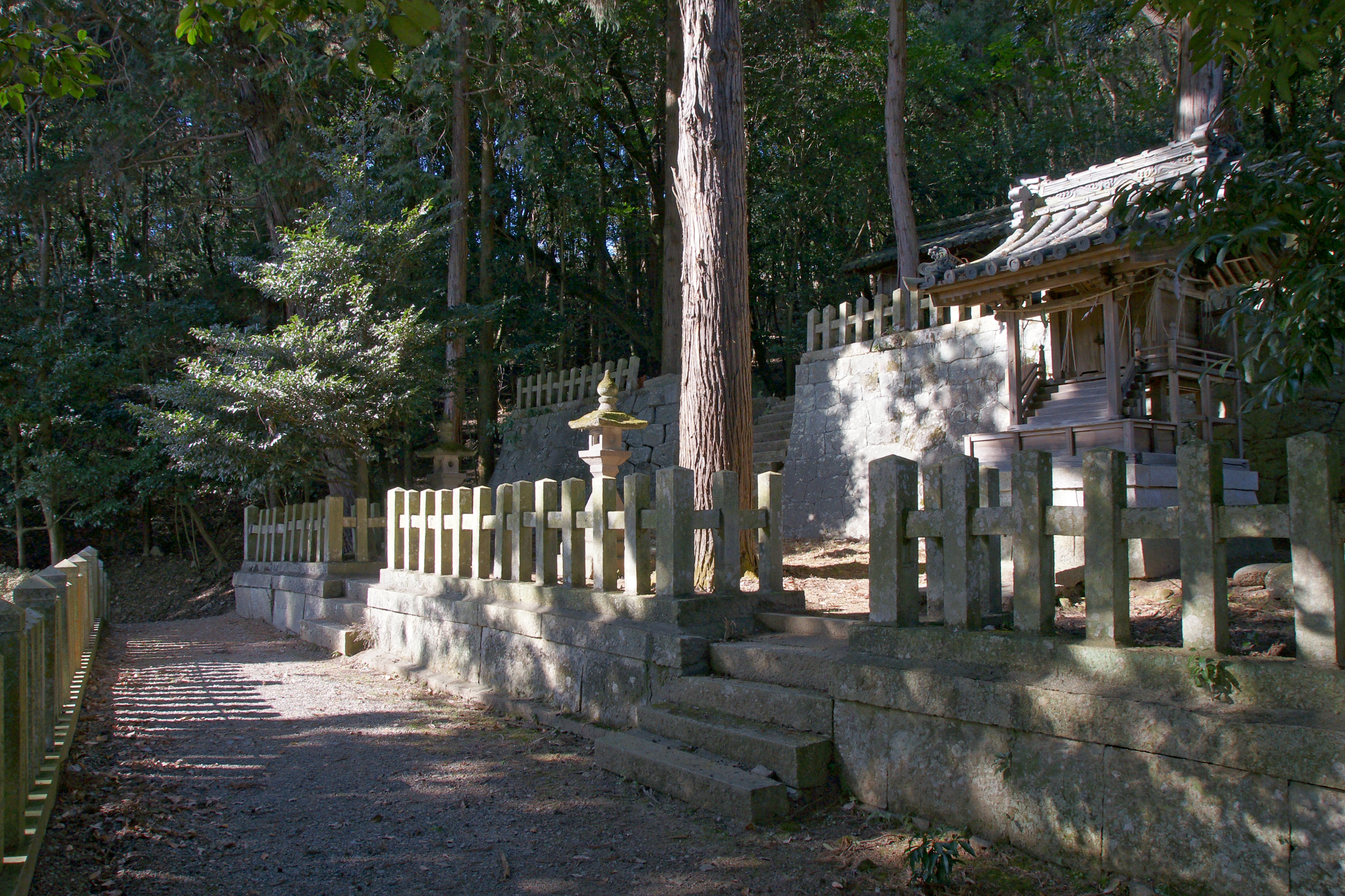 Iibonimasuamaterasu-jinja in Tatsuno, Hyogo prefecture, Japan